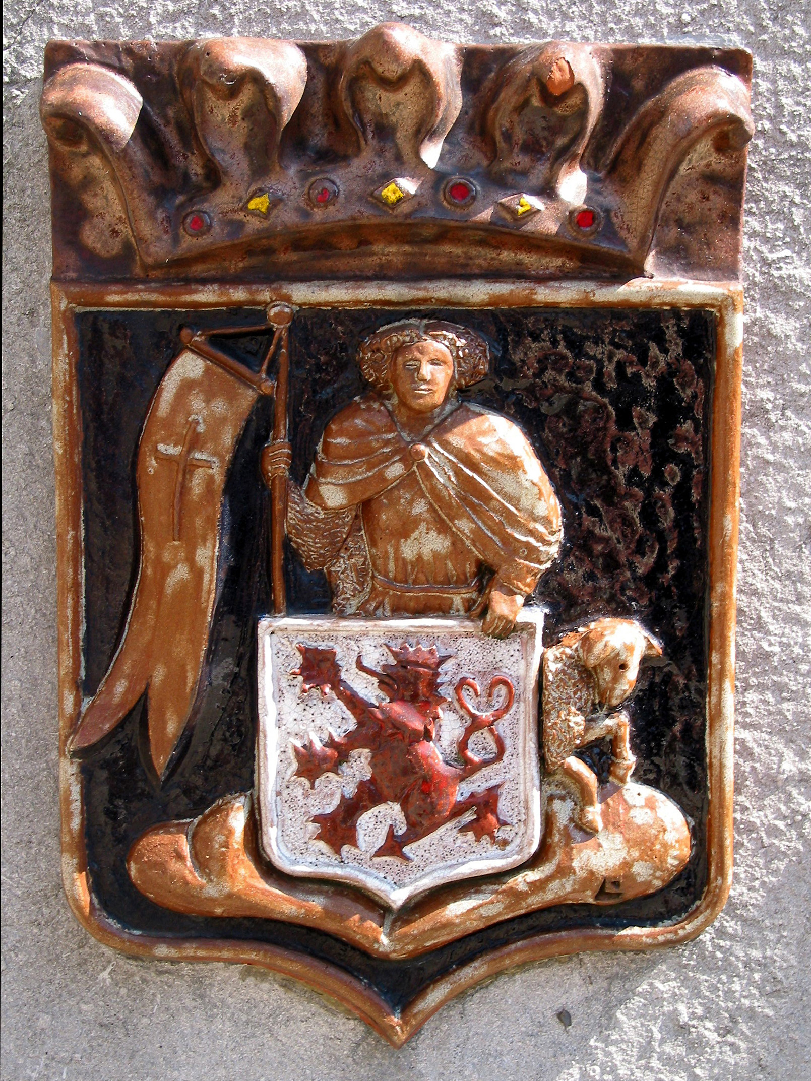 Herve (Belgium), the old coat-of-arms of the town.